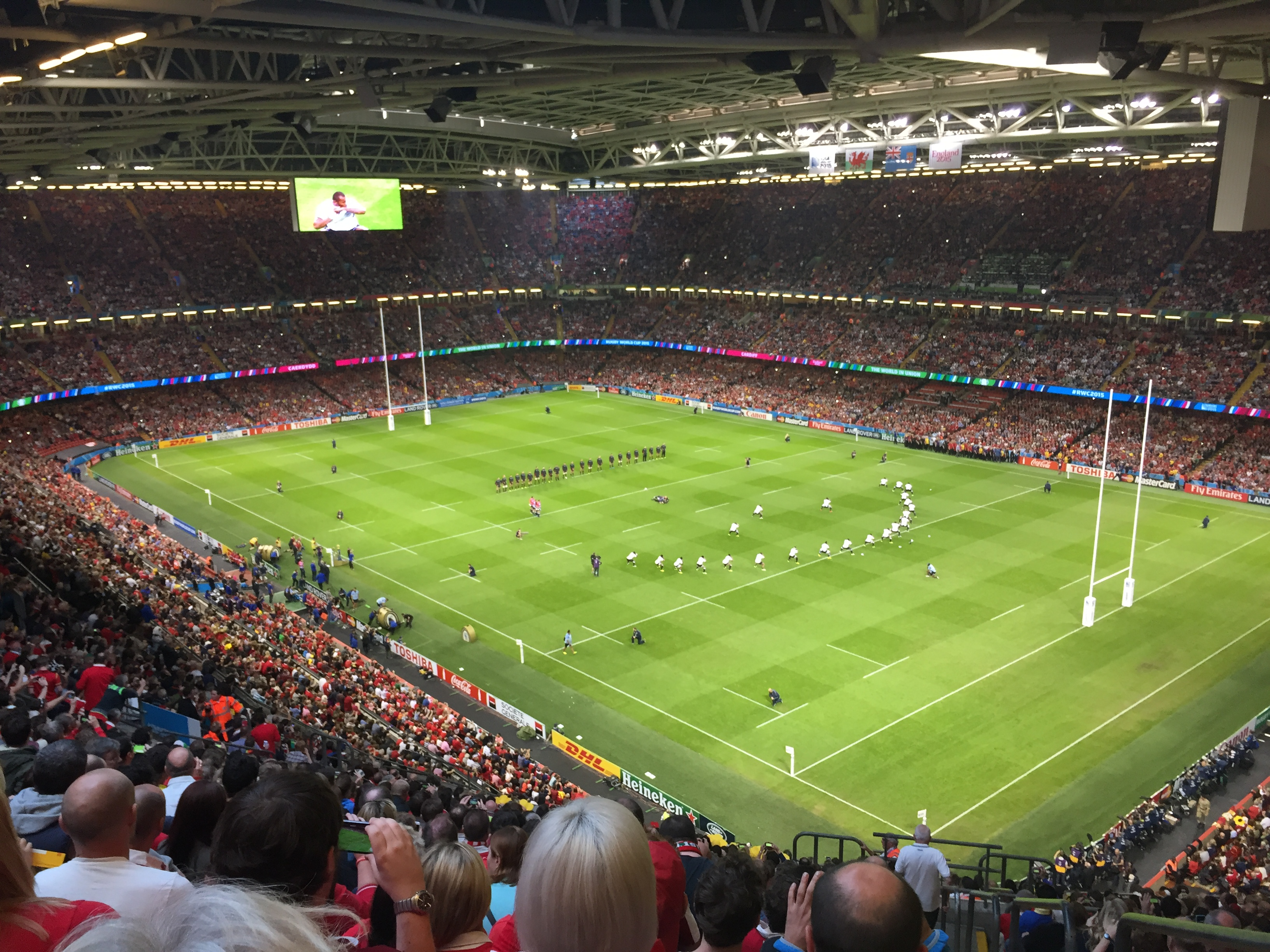 The Millennium Stadium during Wales' clash with Fiji.